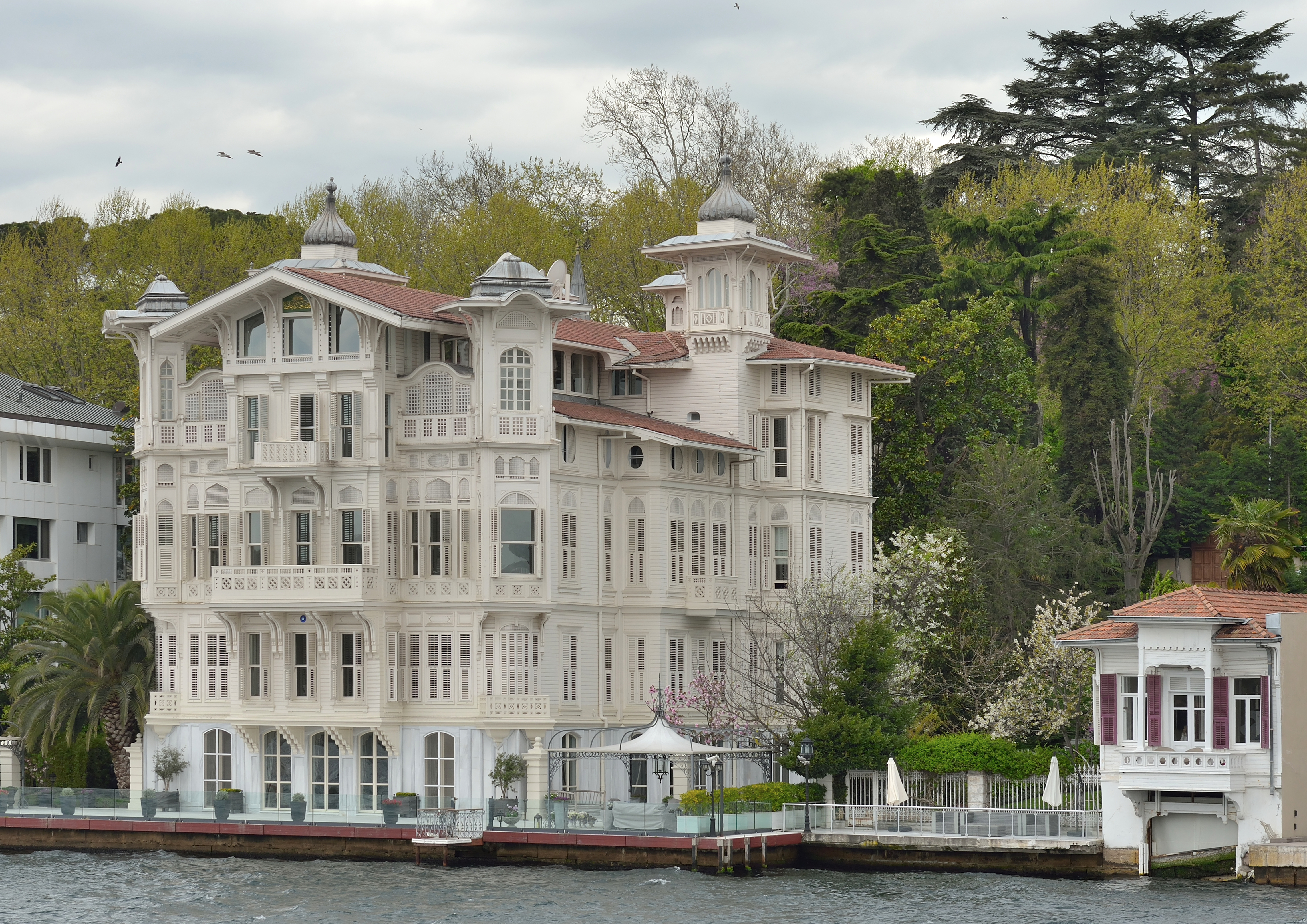 The yalı (waterfront house) of Afif Pasha (Afif Paşa Yalısı) at Yeniköy on the Bosphorus in Istanbul was designed by Alexander Vallaury.